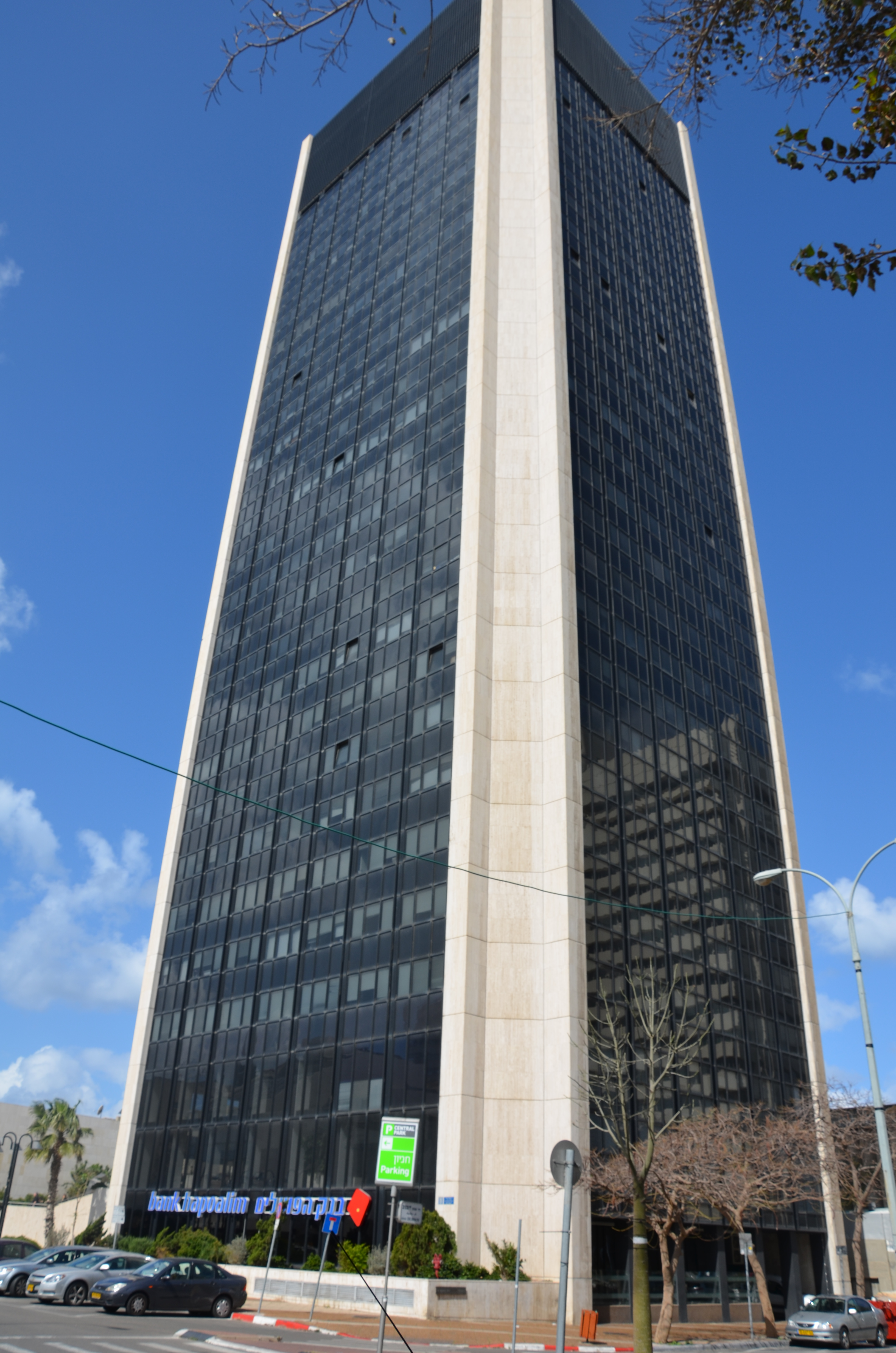 "The Tower"- HaMigdal in Daniel Frisch 3 st, Tel-Aviv